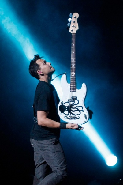 Mark Hoppus